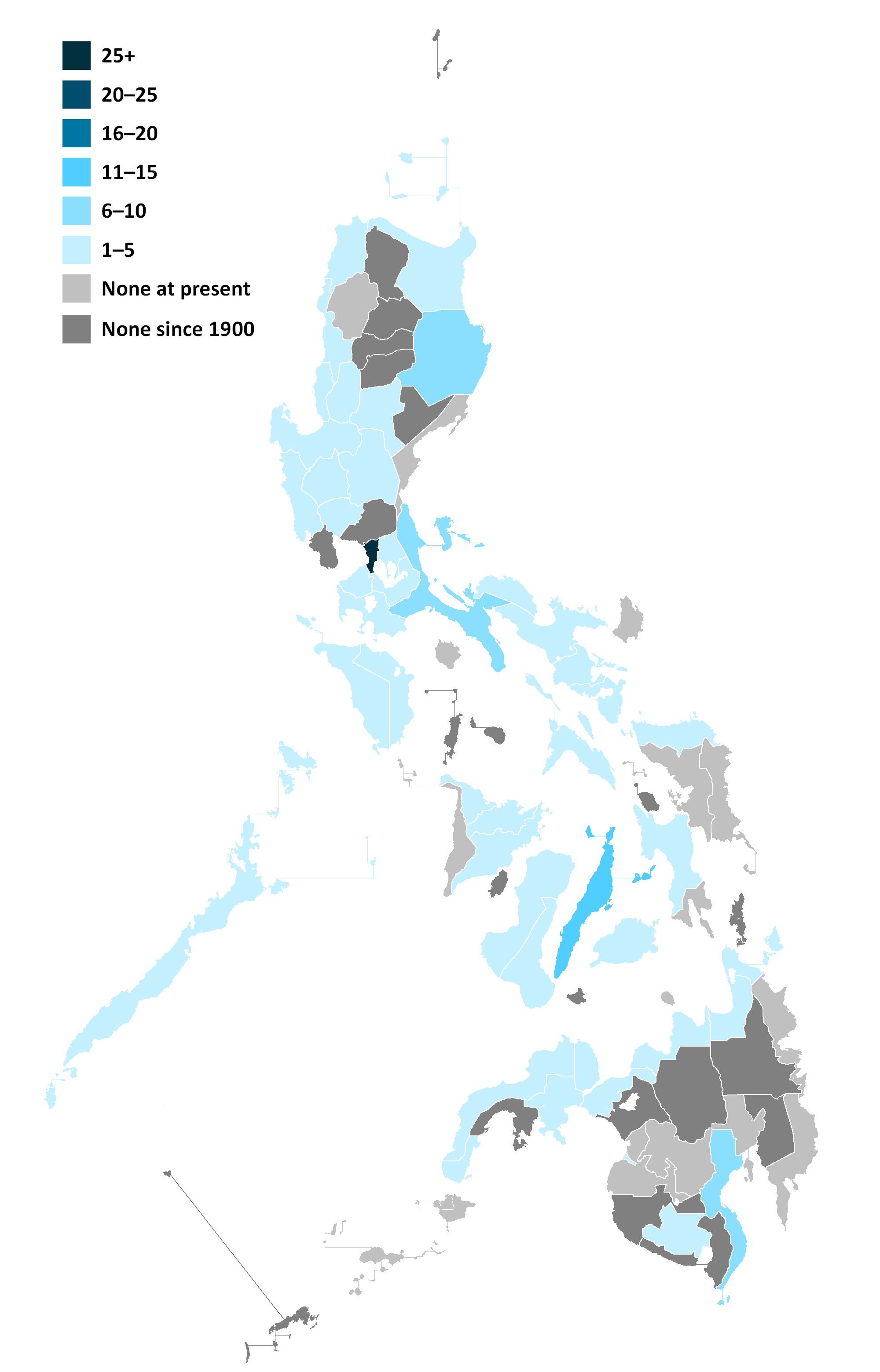 Map of Chinese schools in the Philippines, represented by colors on the number of Chinese schools in each Philippine province.